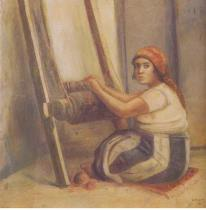 La Tisseuse by Hédi Khayachi (1882-1948)